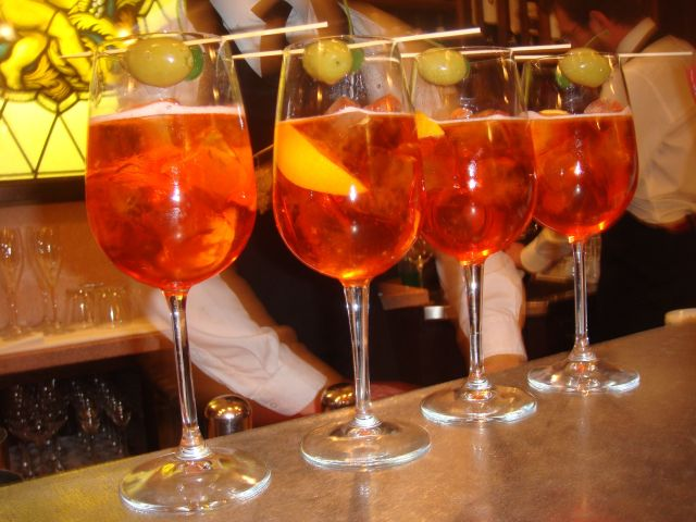 Typical Venetian coctail Spritz, as it is prepared in Bistrot de Venice, calle dei Fabbri